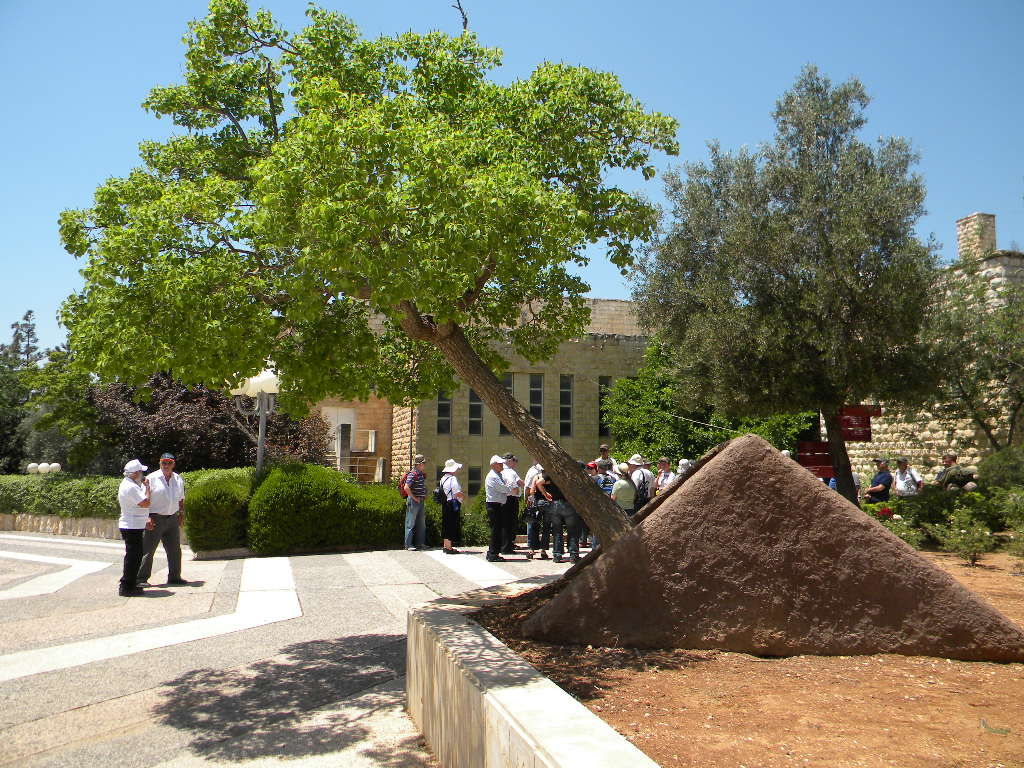 Plants of Israel